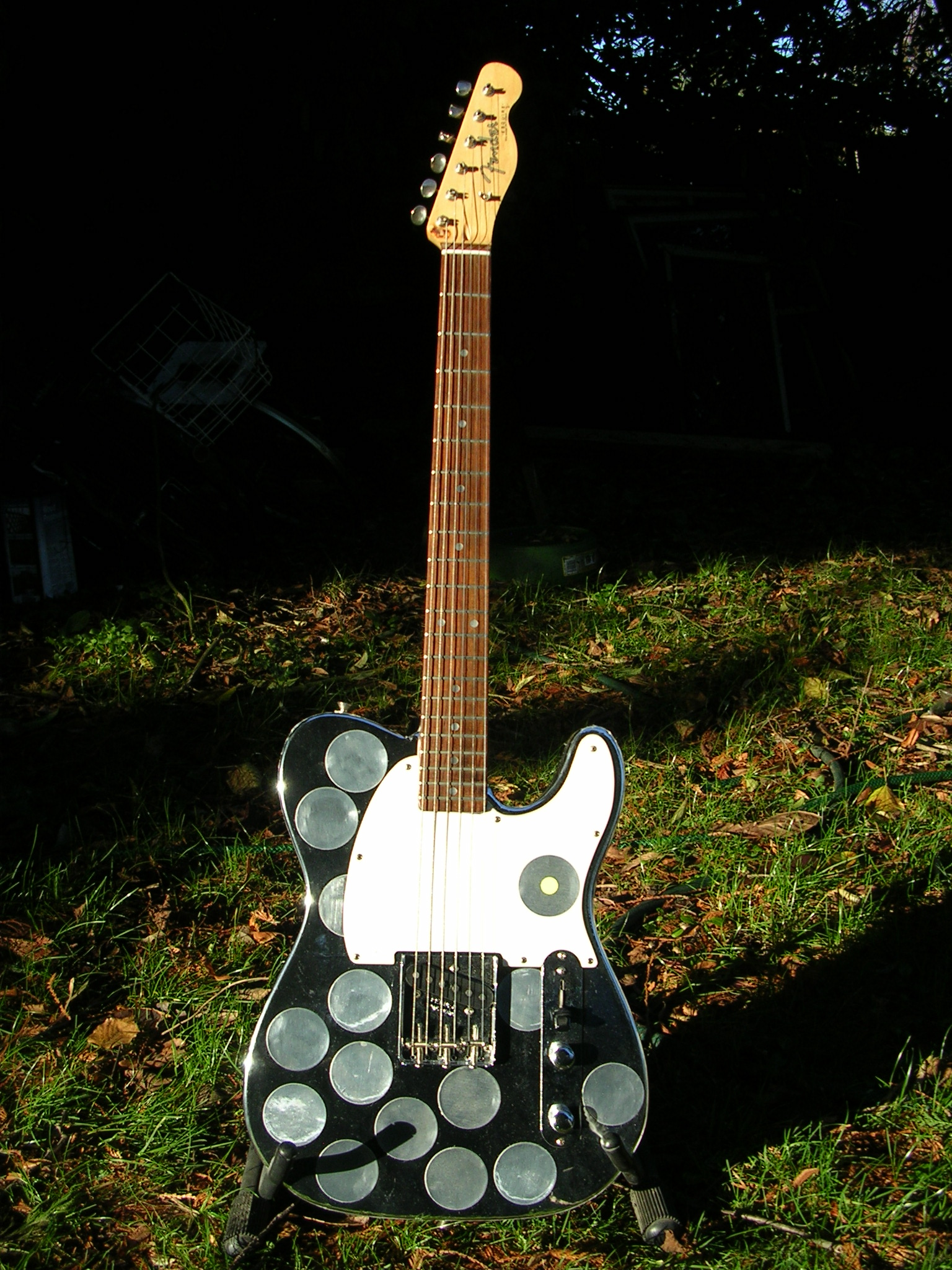 Syd Barrett mirrored Fender Esquire guitar prior to inclusion in Pink Floyd's Interstellar exhibition, Cite de la Musique, Paris